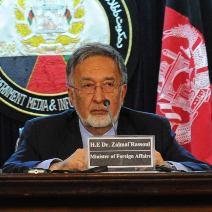 Foreign Minister Zalmai Rassoul participate in an International Contact Group press conference at the Government Media Information Center in Kabul, Afghanistan.